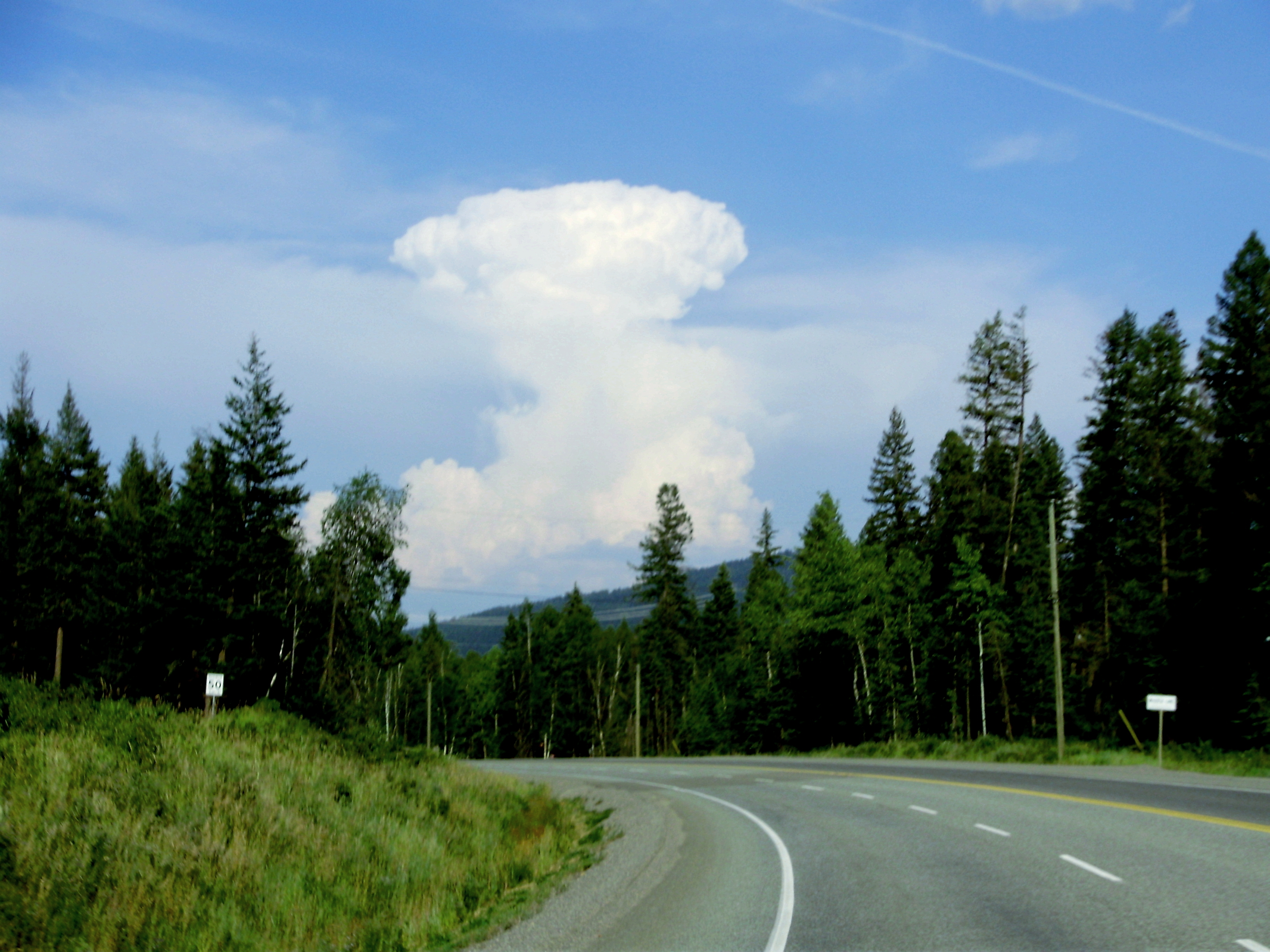 A picture of a Cumulonimbus incus cloud taken through a car window on a road trip. Taken somewhere in central BC. I edited it with GIMP to bring out the details in the cloud.